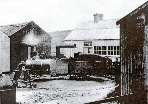 Turning the locomotive on the Lartigue Monorailway